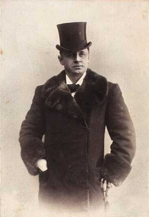 Martinius Valdemar Nielsen (1859-1928), Danish actor and theatre manager